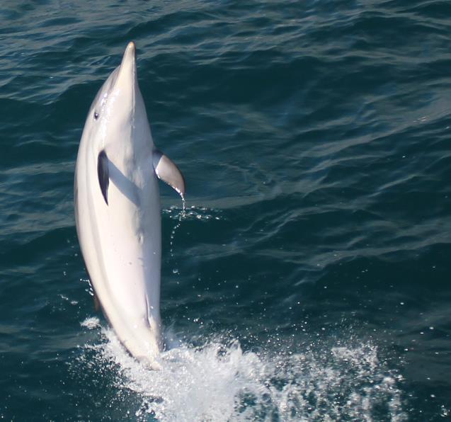 This photo belongs to Graham Hesketh of Dolphin Safari Gibraltar.